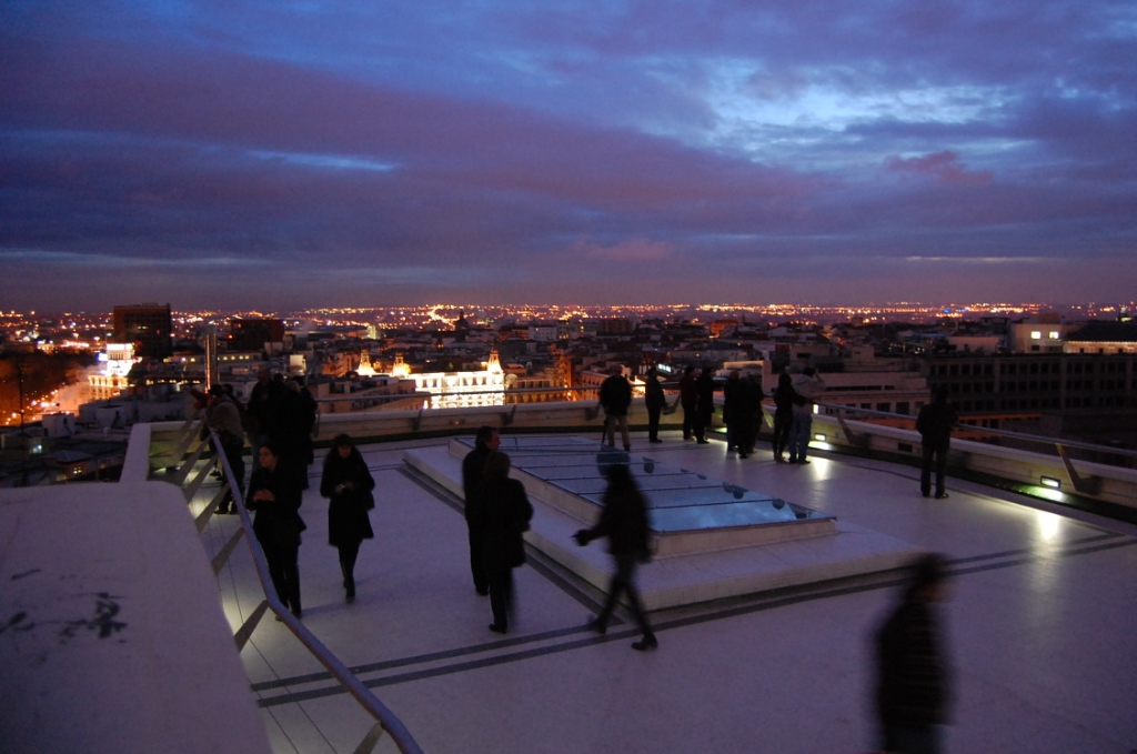 Círculo de Bellas Artes' flat roof, in Madrid (Spain).